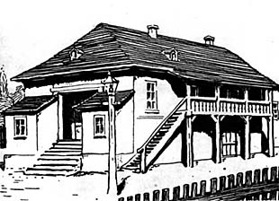 György Telepi: Supposed drawing of the first theatre, Miskolc, Hungary